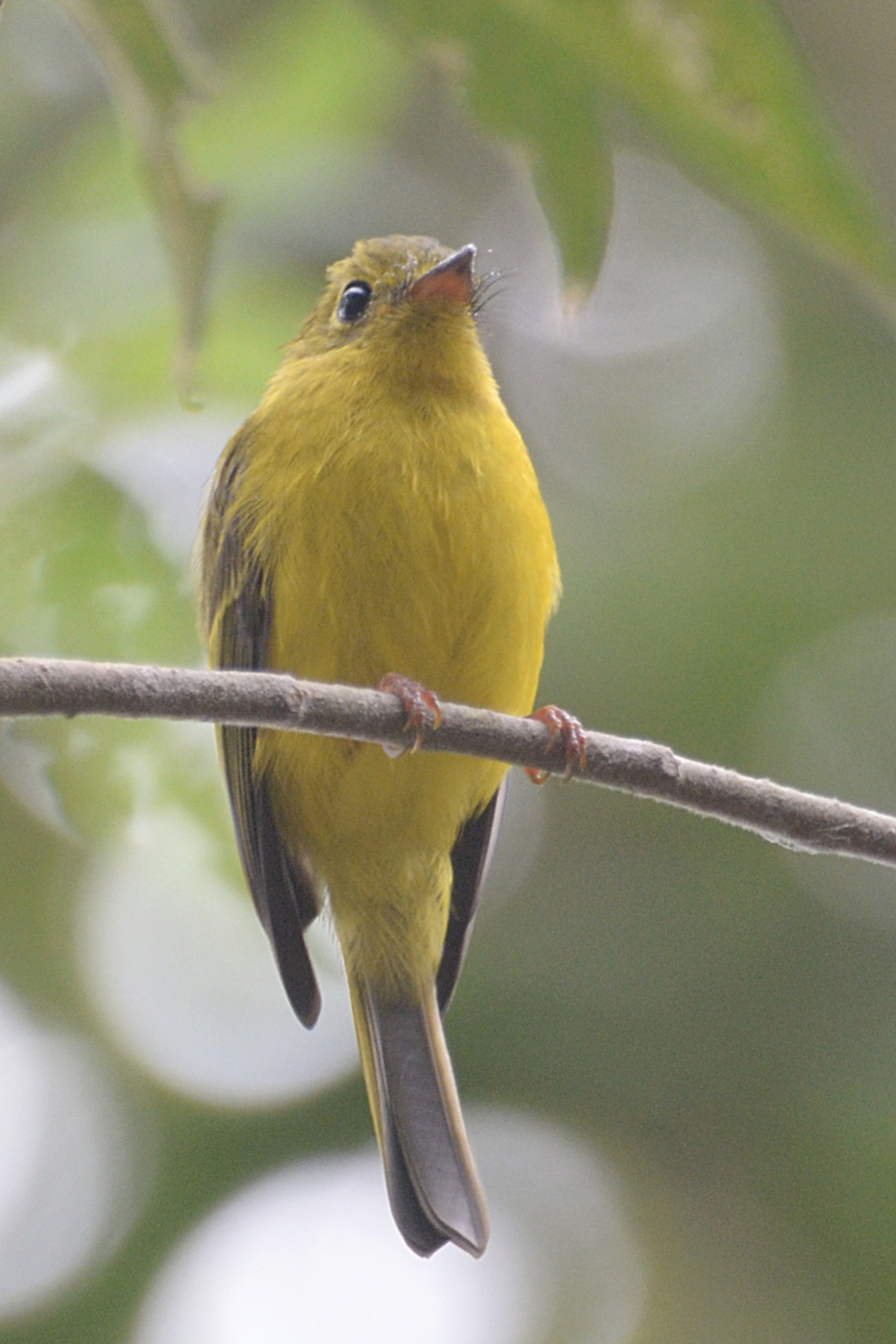 Citrine-canary flycatcher (Culicicapa helianthea) at Mount Mahawu Protected Forest, North SulawesiBahasa Indonesia: Sikatan matari (Culicicapa helianthea) di Hutan Lindung Gunung Mahawu, Sulawesi Utara